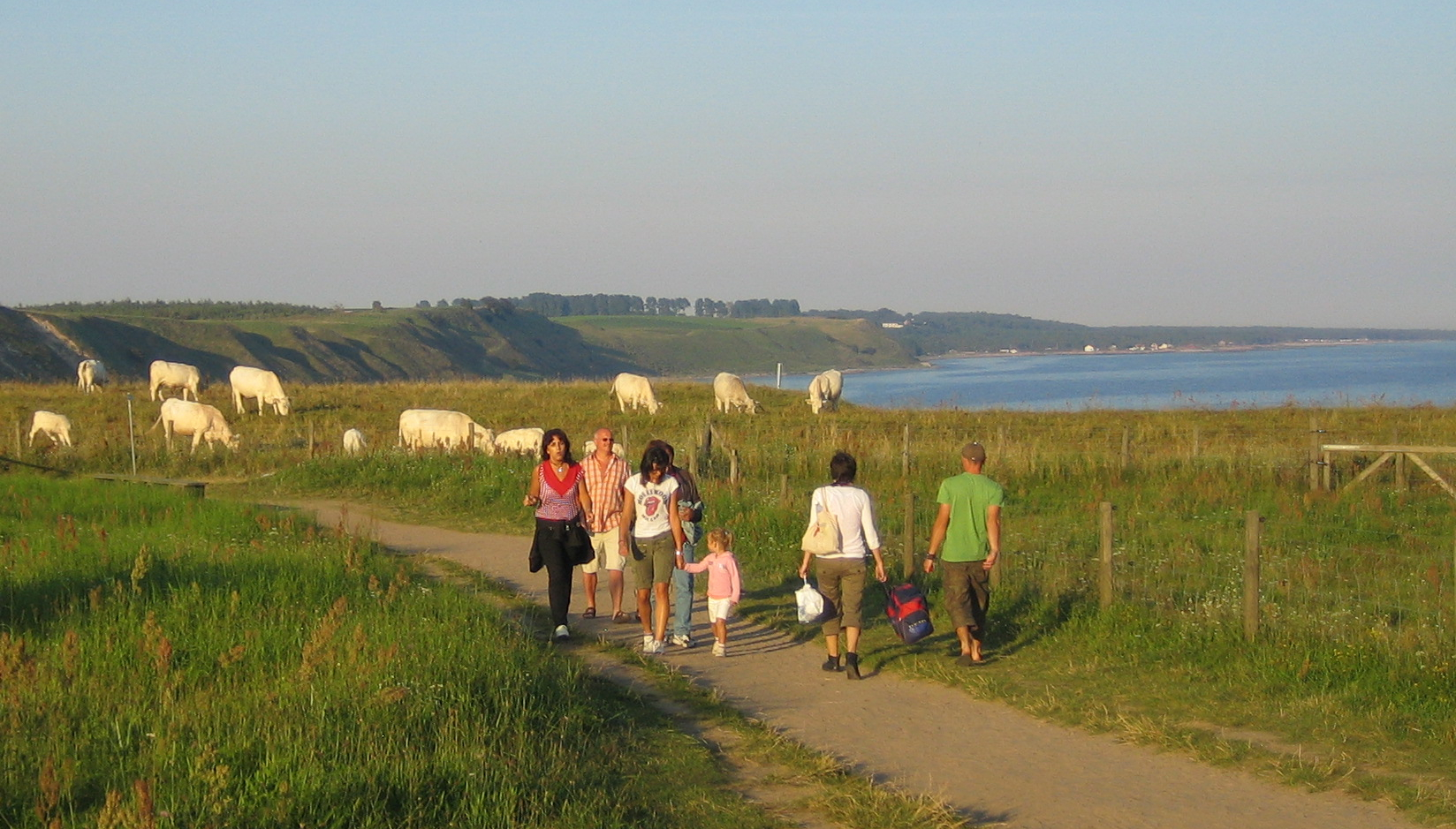 View of ridge and coastline from Kåseberga, Skåne